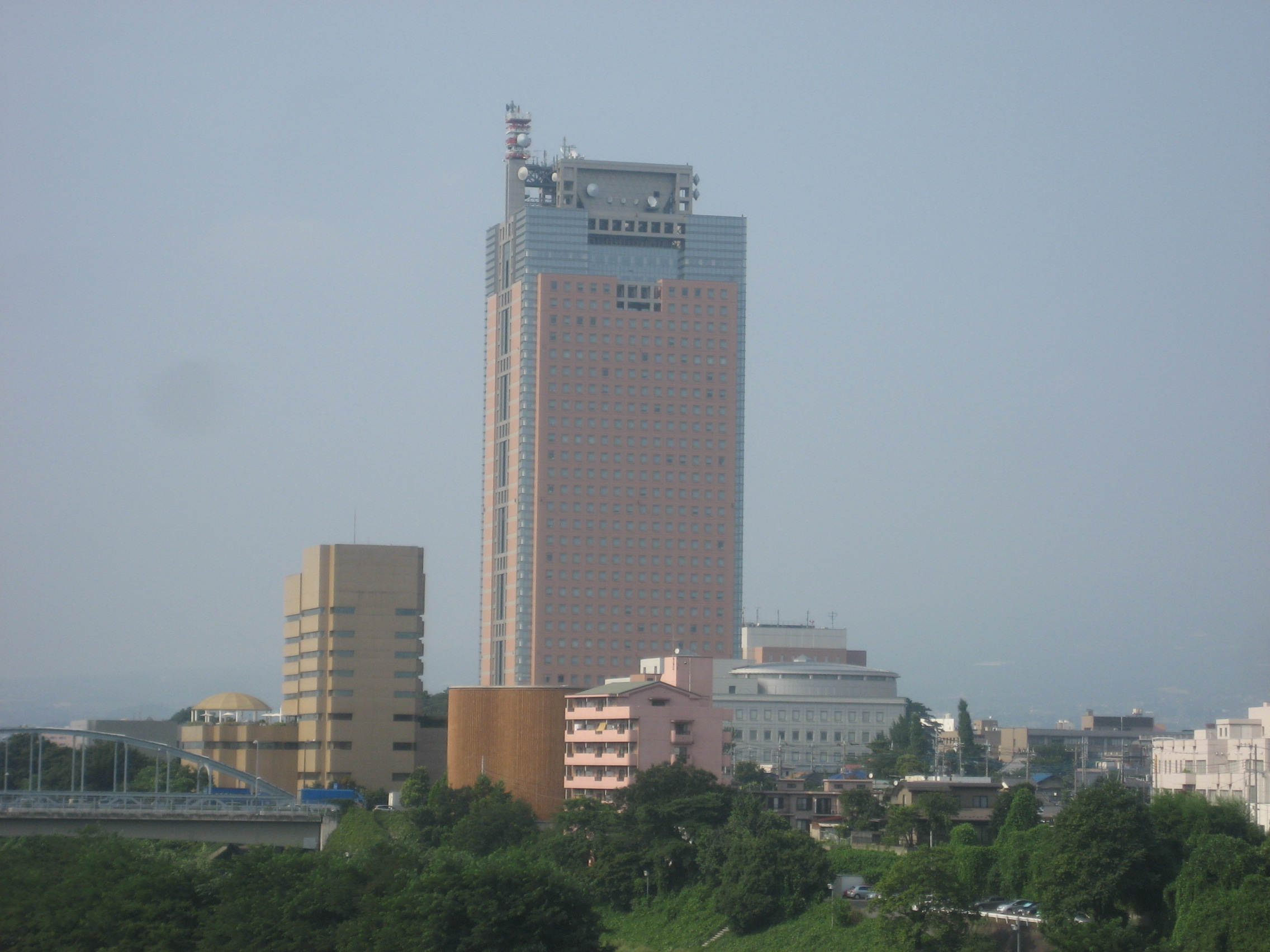 Gumma Prefectural Office